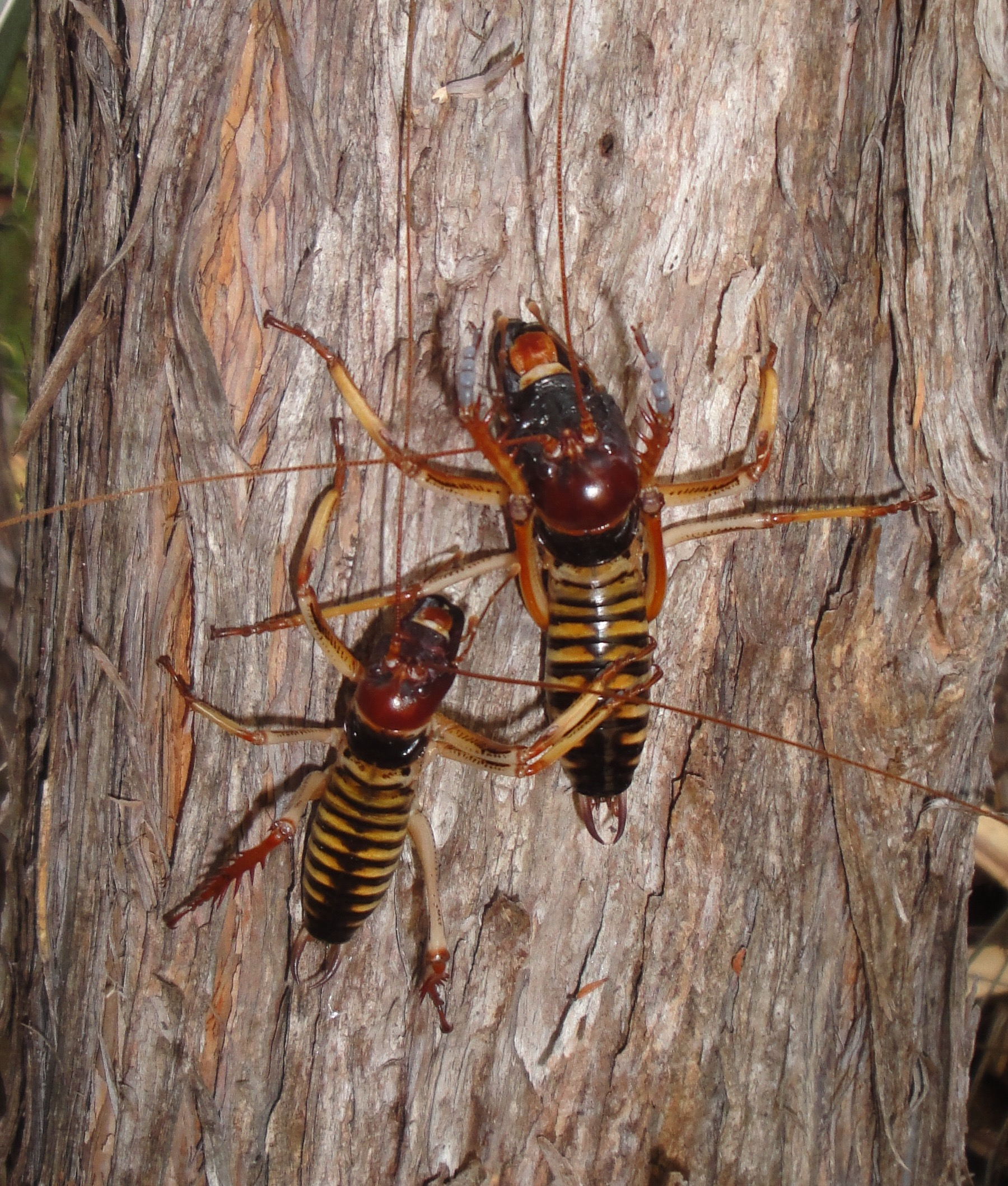 Two male Hemideina crassidens tree wētā. Both are adult and fertile yet have quite different body size, and notably different head/mandible size. Adult male size variation in tree wētā appears to be linked to ecological and sexual selection trade-offs.